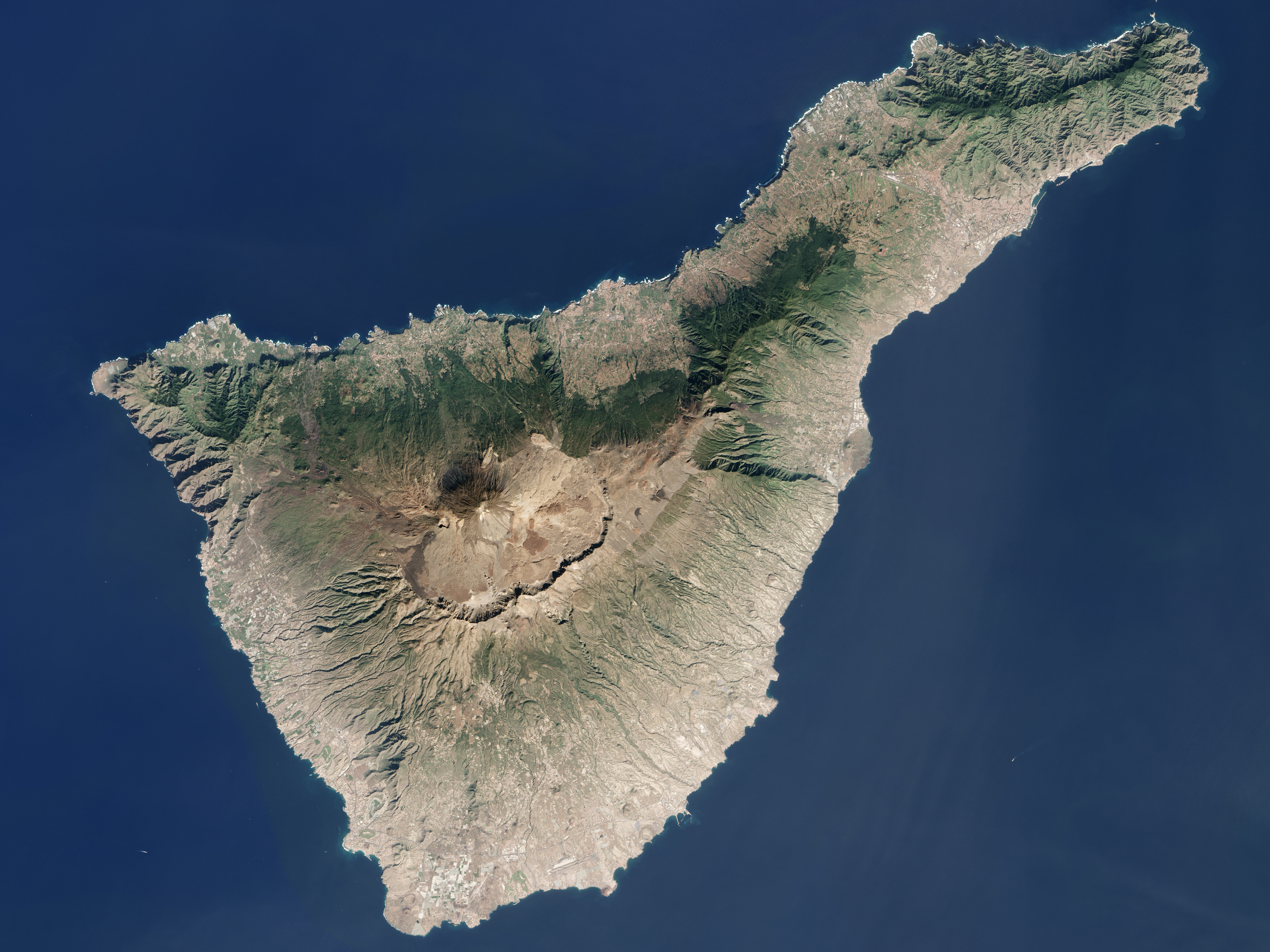 Tenerife Island (Canary Islands, Spain) from LANDSAT7 satellite of NASA. Coordinates: -16.52792W 28.29799N